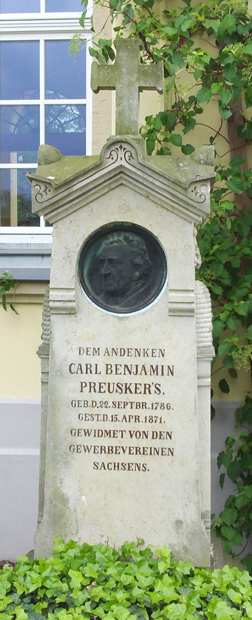 Karl Benjamin Preusker gravestone on the Großenhainer Cemetery